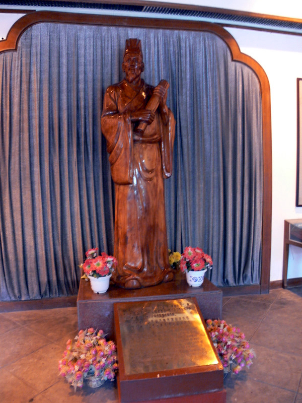 Statue of Zeng Gong in the Nanfeng Shrine in Daming Lake